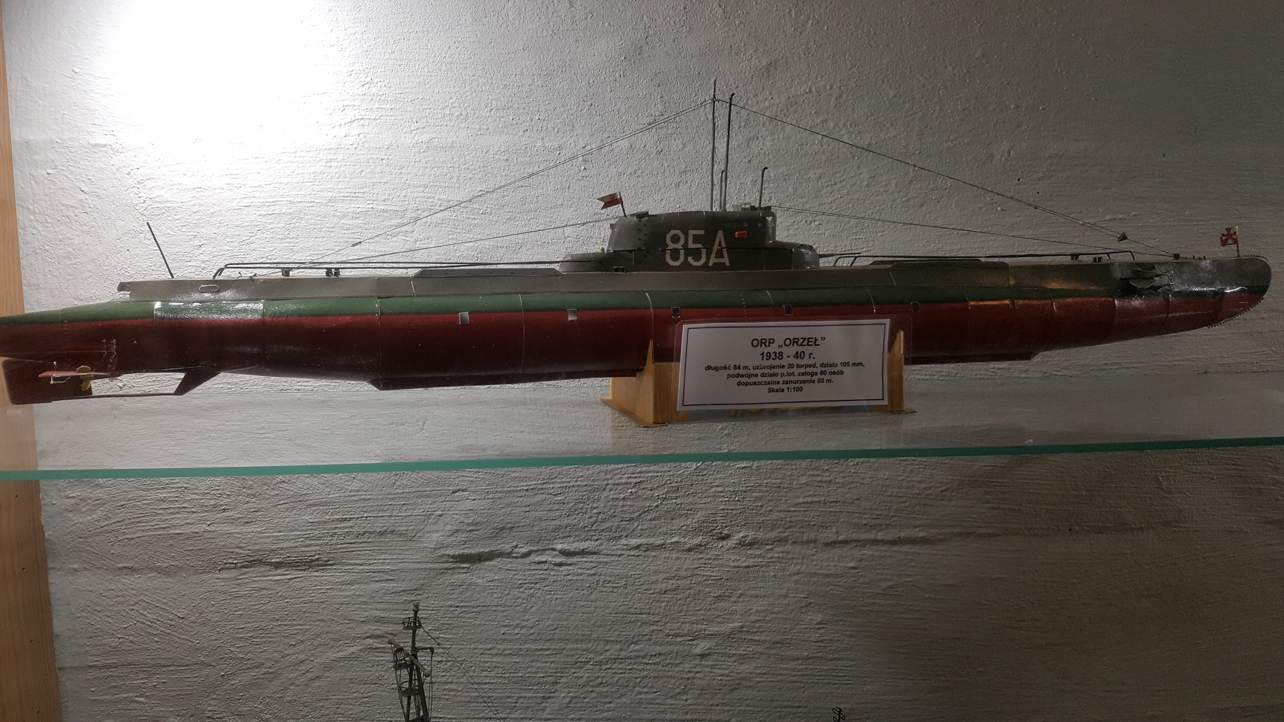 ORP Orzeł model at Schleswig-Holstein Battery located at Hel